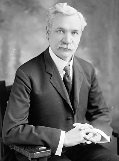 Edmund H. Hinshaw, US Representative from Nebraska